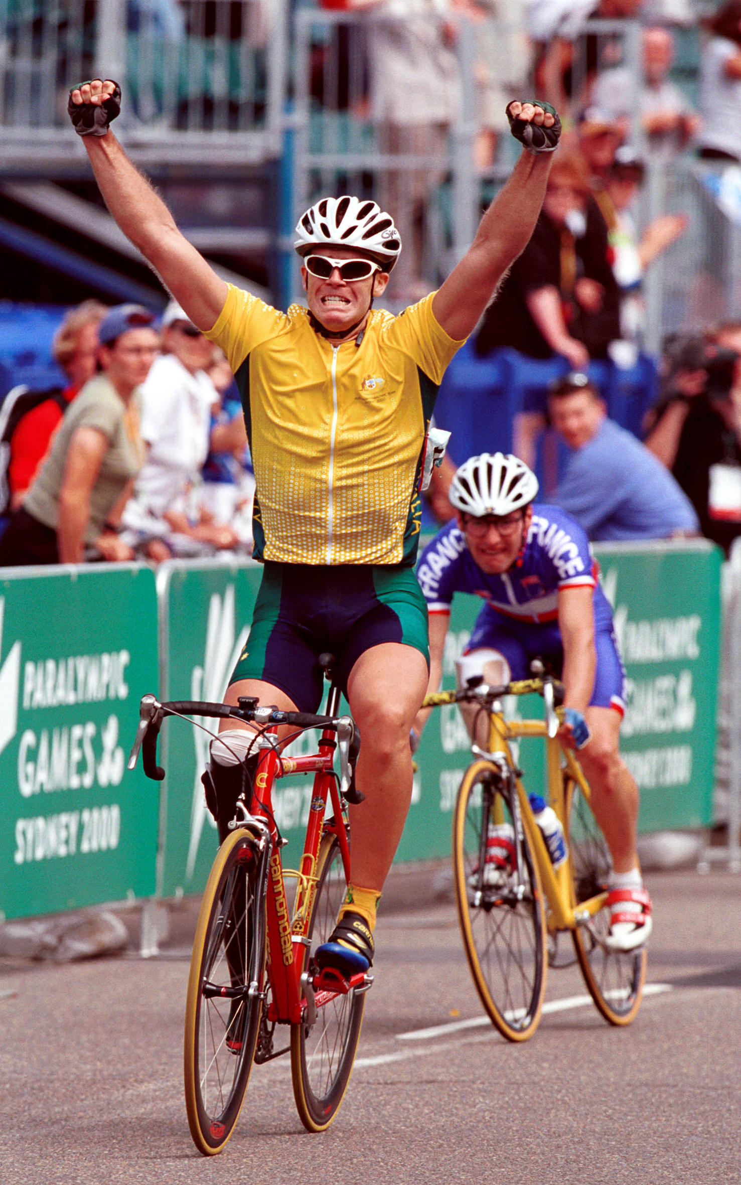 Australian road cyclist Daniel Polson is elated and celebrates winning a gold medal in the 2000 Sydney Paralympic Games road race